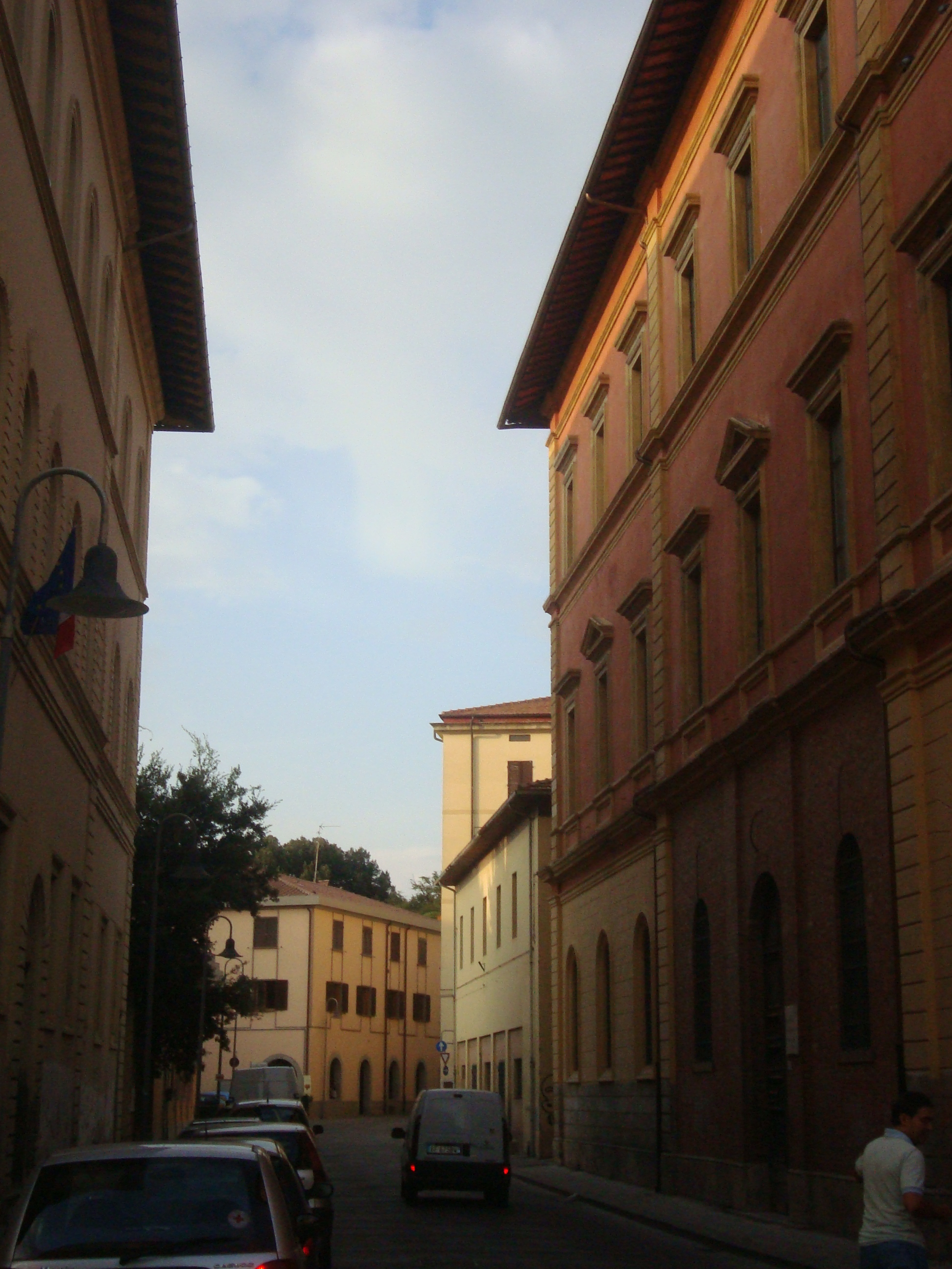 Via Mazzini in Grosseto